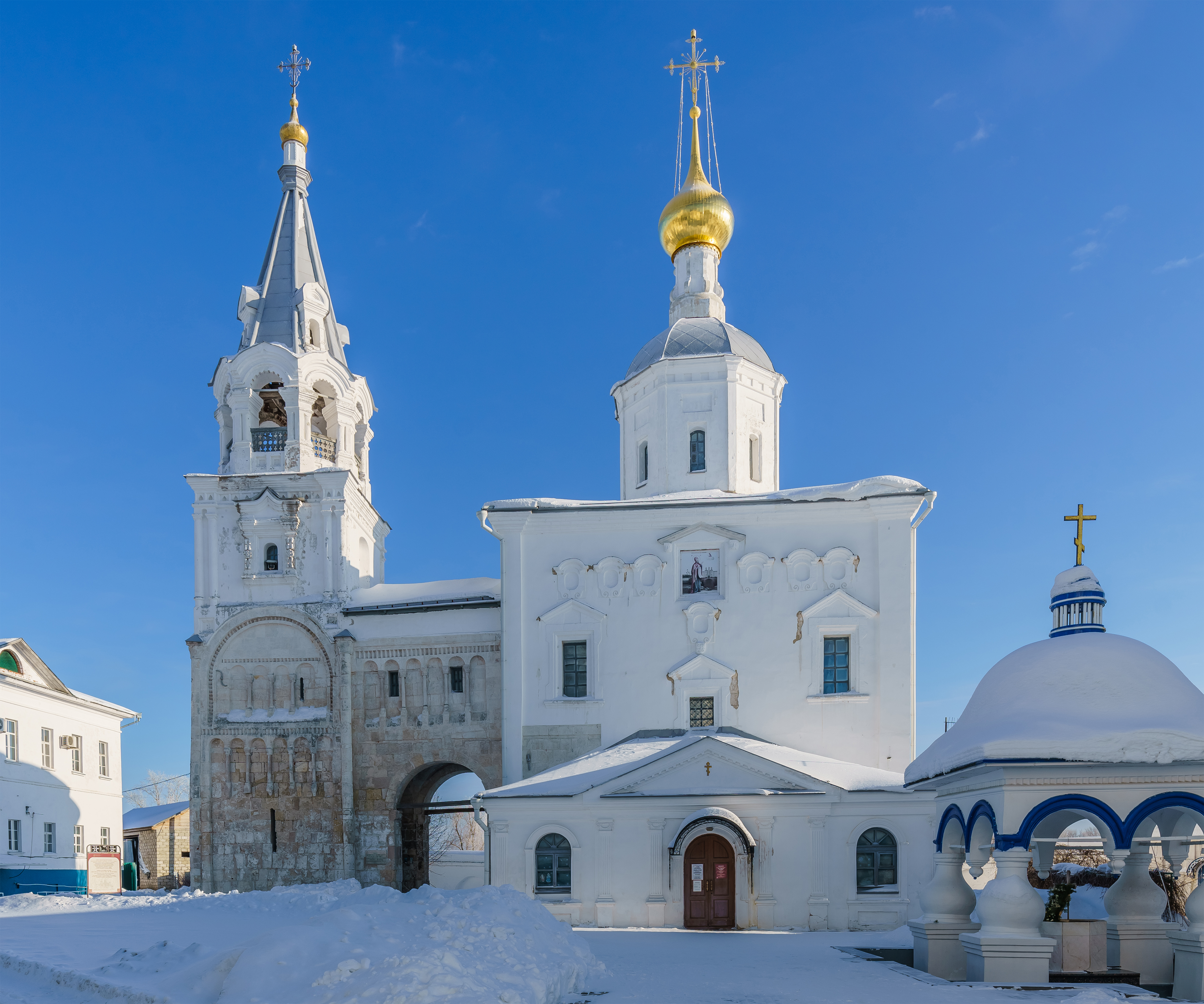 Bogolyubsky Monastery in Bogolyubovo near Vladimir, Russia